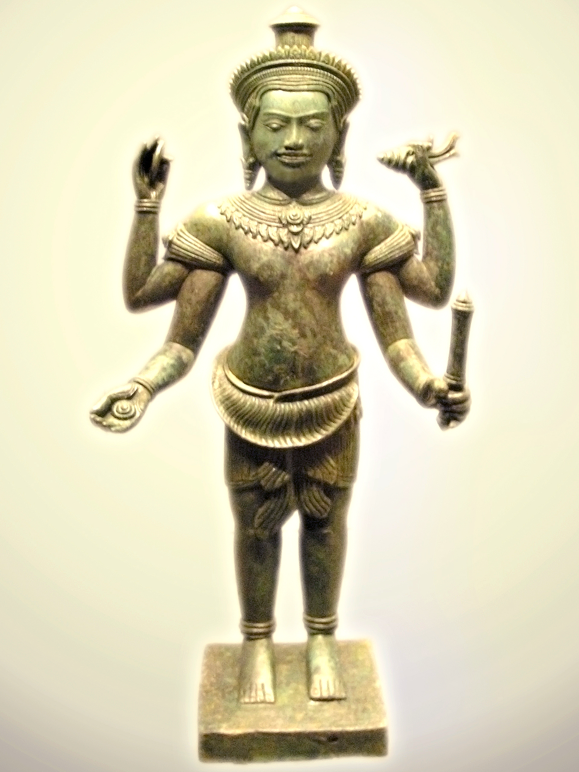 This is a cleanup of the original image at License is PD, as set by the author: I have corrected the "tilting", a little perspective distortion, contrast, centering, focus and a green colour deviation.